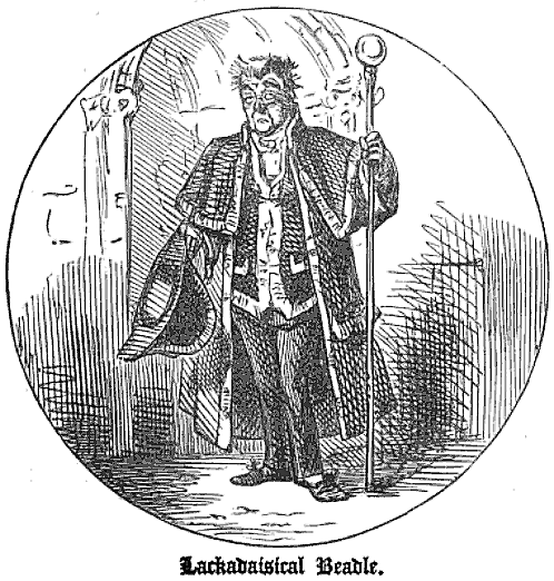 Humorous drawing of a 19th century ecclesiastical beadle.